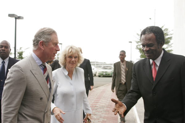 Tobago House of Assembly Chief Secretary Orville London welcomes British Crown Prince Charles and Duchess Camilla to Tobago.